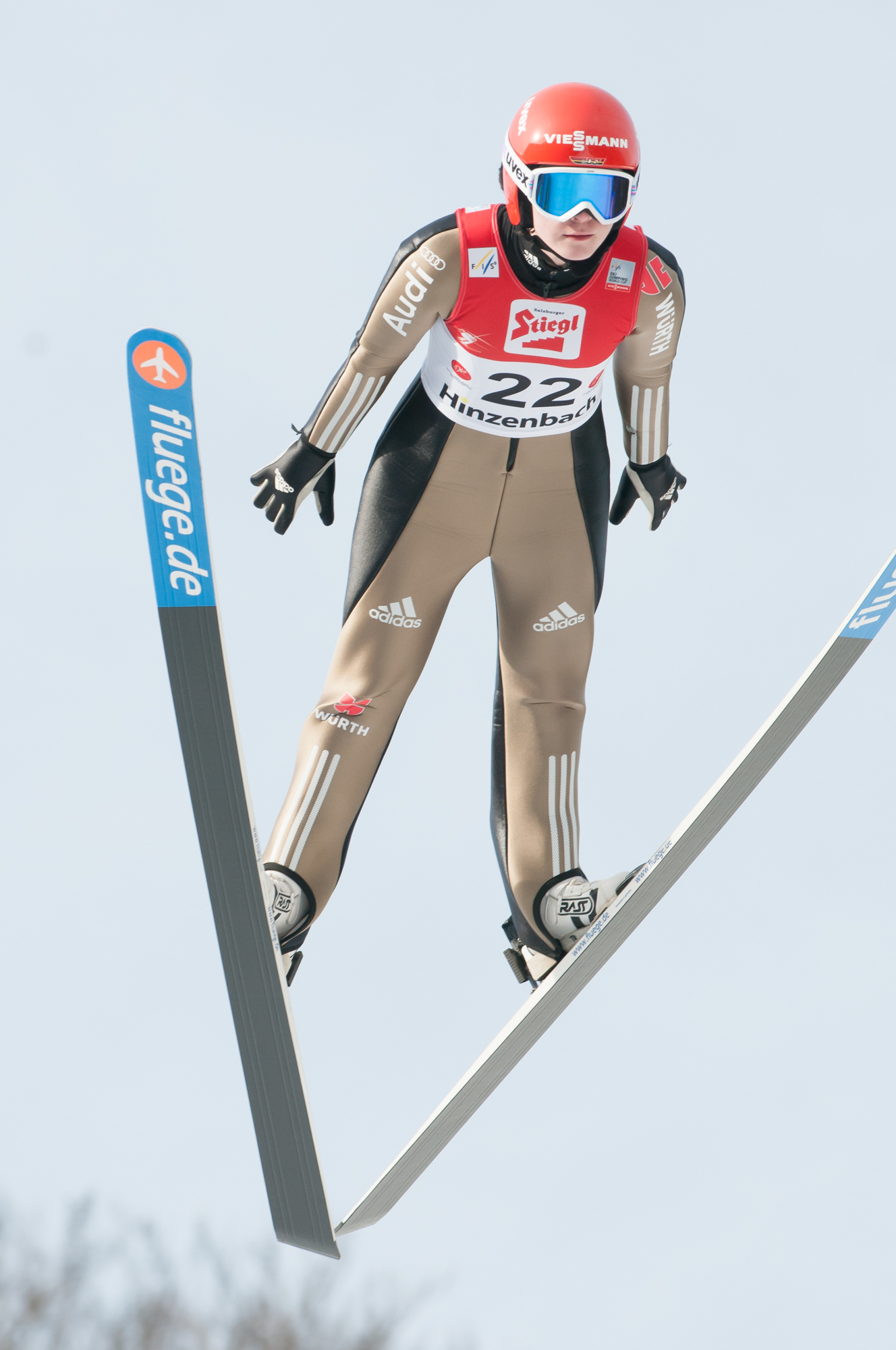 FIS Ski Jumping World Cup Ladies Hinzenbach 2016-02-07